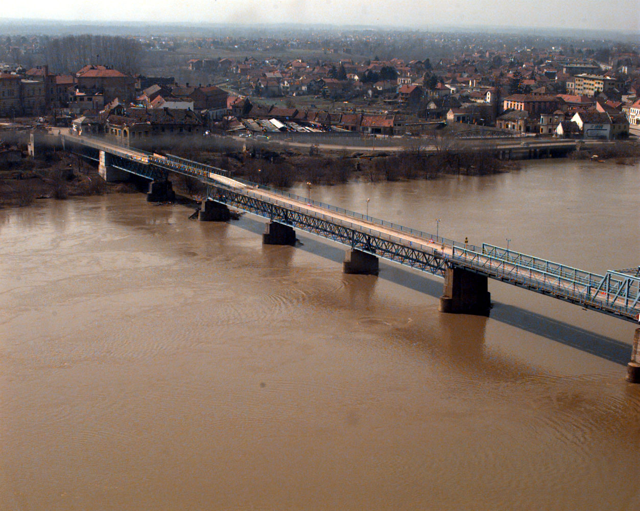 The Brcko bridge that is currently under construction on April 07 1996 during Operation Joint Endeavor. (Photograph by Specialist Andrew McGalliard 55th Signal Company Combat Camera.) 960407-A-8303M-008